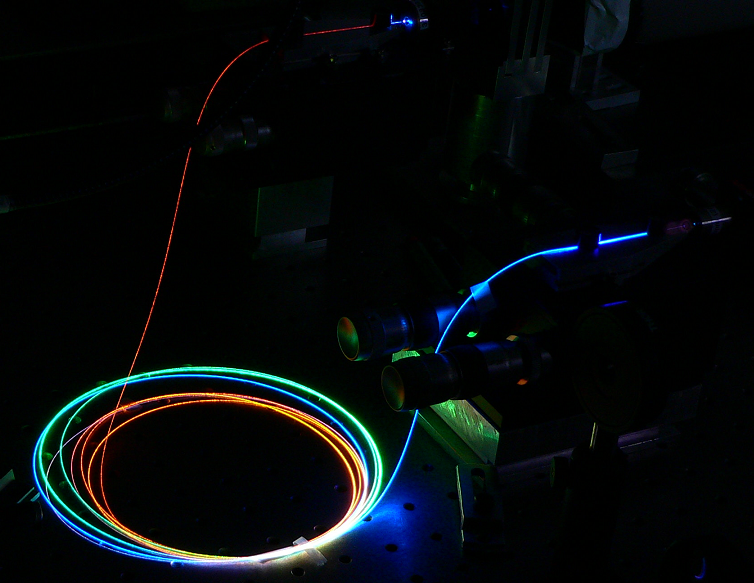 Photo of an optical fibre where nonlinear effects on an infrared pulse generate a supercontinuum.